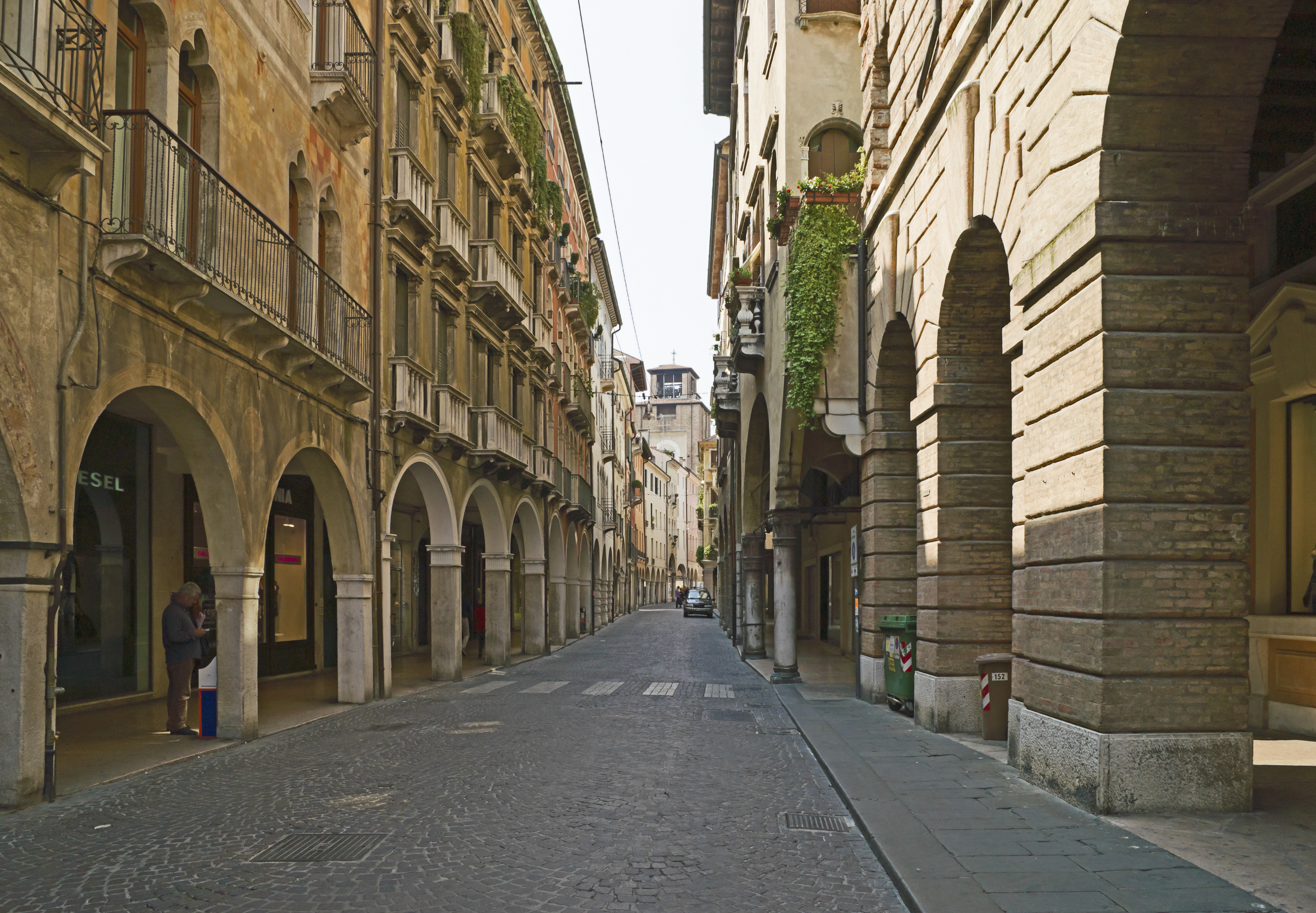 Via Calmaggiore (Maine street), Trevisio.